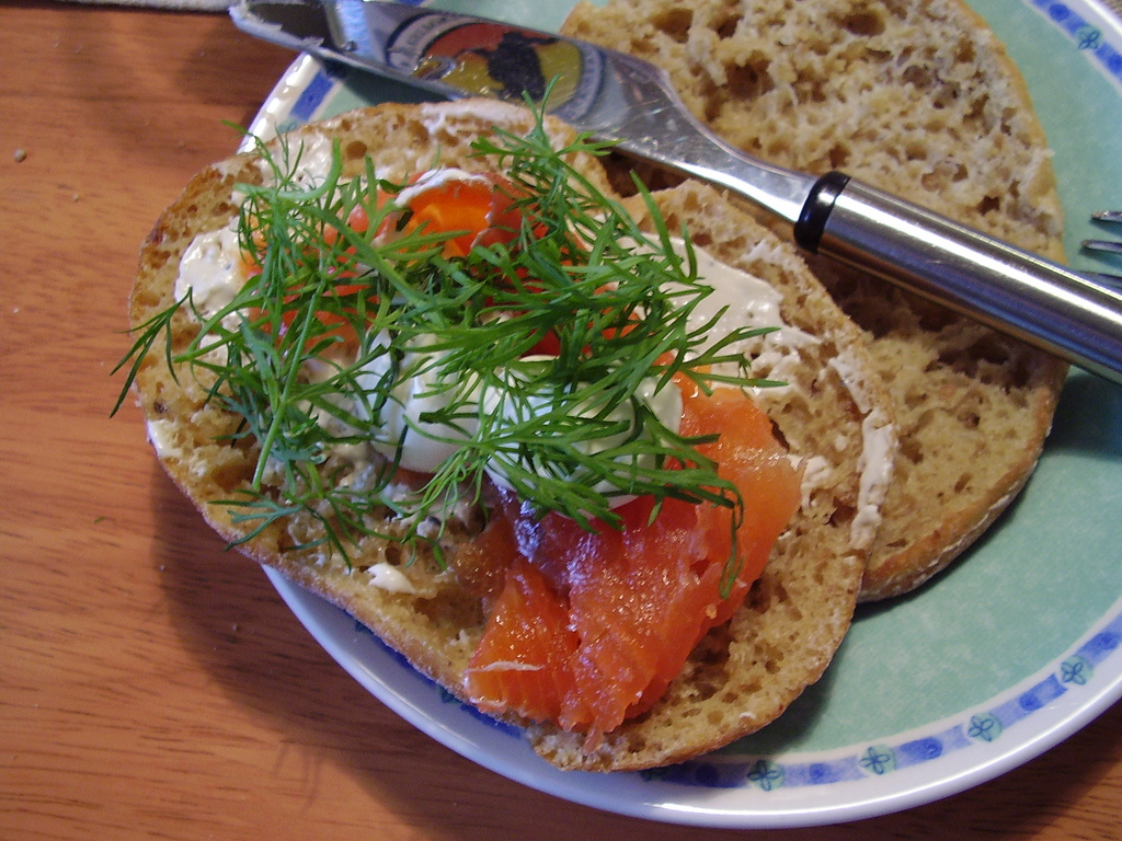 Picture is documenting Finnish food speciality: rye bread with smoked salmon, smetana and dill.